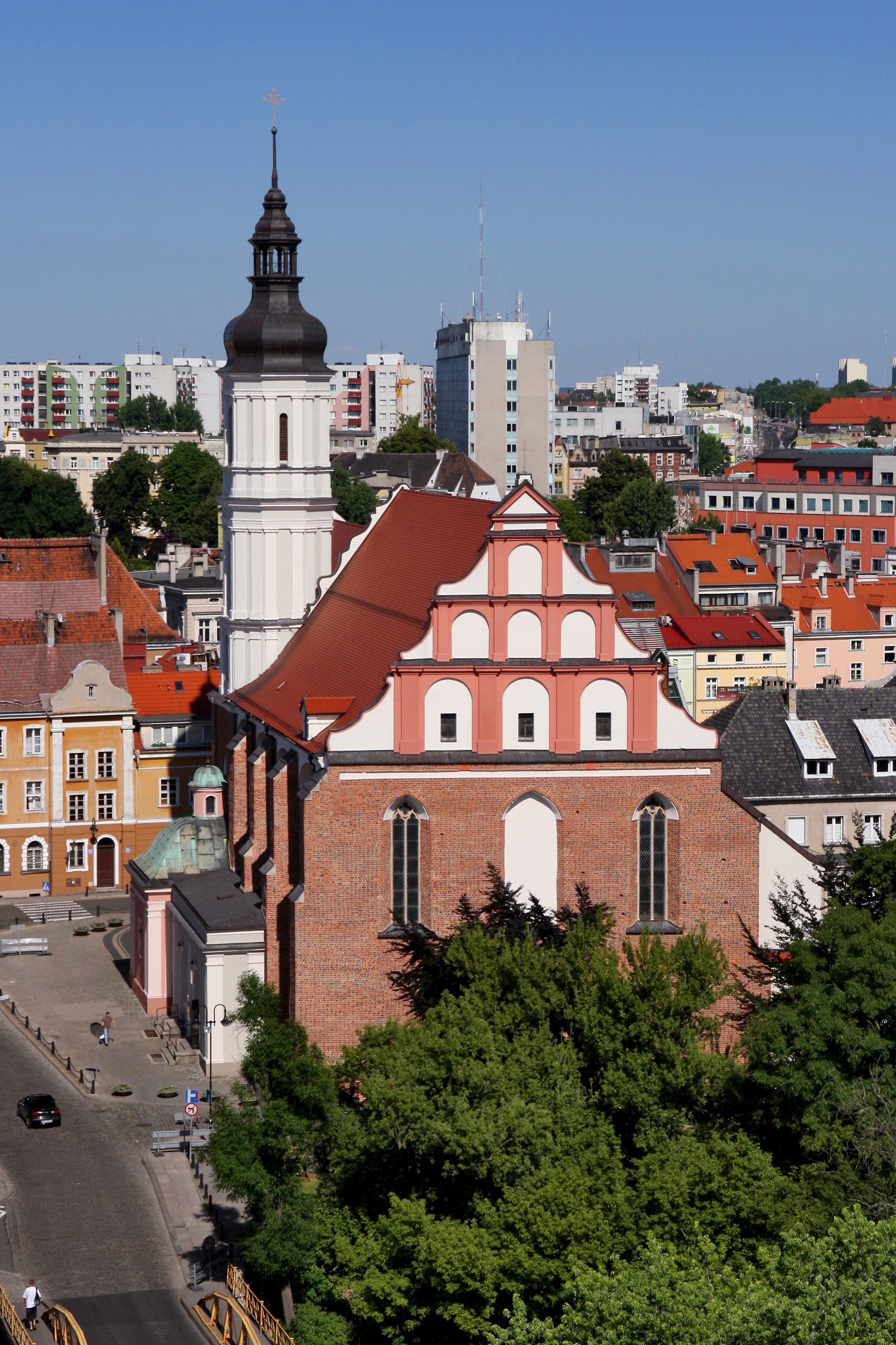 Church of the Holy Trinity (popularly the church of Franciscan) in Opole (Poland).